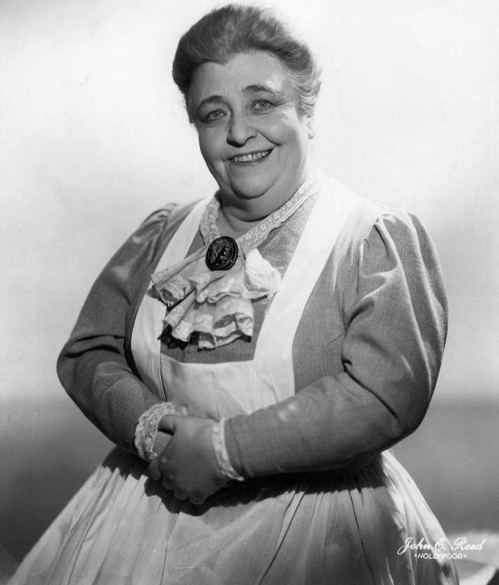 Publicity photo of actress Jane Darwell, who was appearing in the play A Doll's House when the photo was taken.